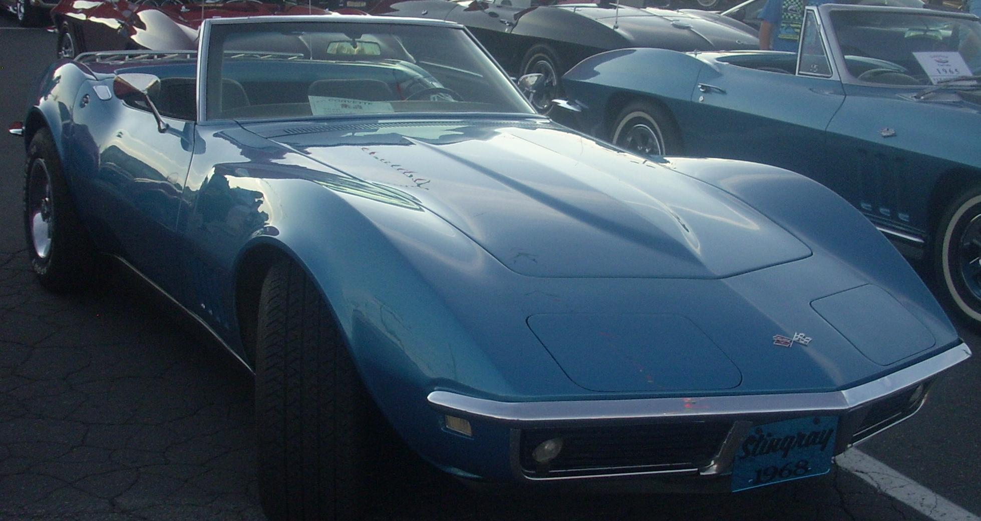 1968 Chevrolet Corvette Stingray photographed in Montreal, Quebec, Canada at Gibeau Orange Julep.